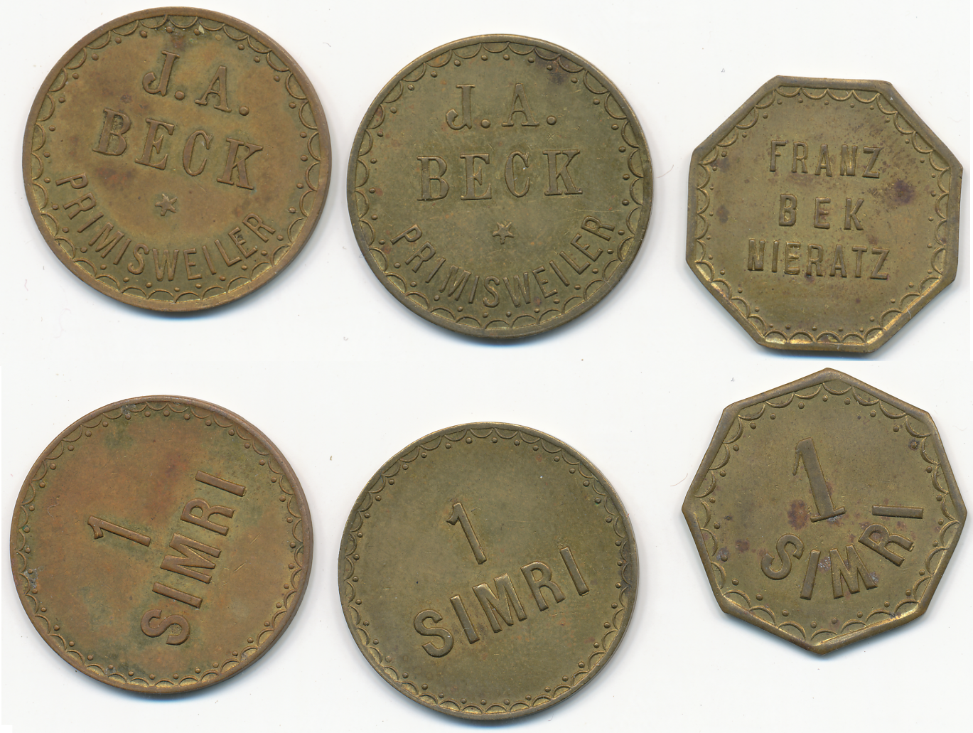 Hops tokens from Primisweiler and Nieratz in southern Germany (near the Bodensee).